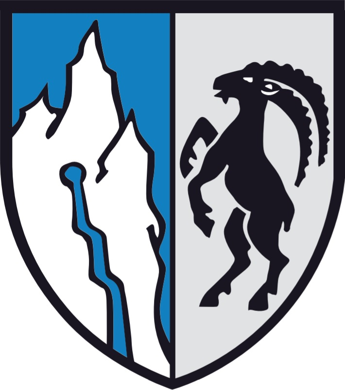 Coat of arms of Wildalpen, Styria, Austria